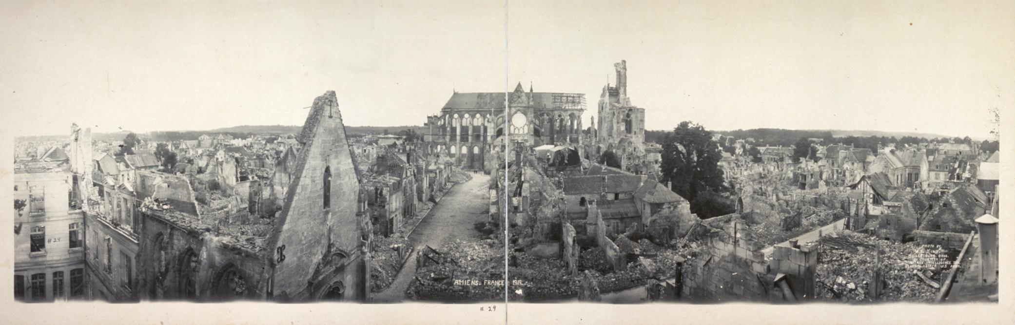 Panorama of Soissons, France, in 1919, heavily damaged during World War I. In the middle is the cathedral. The picture was taken approximately from the current "rue du Collège" in Soissons, looking primarily South. The photograph was incorrectly captioned "Amiens", which is another French city (see File talk:Soissons, France, 1919 panorama.jpg#Amiens or Soissons? for (French) explanations about the fact that this actually is Soissons).